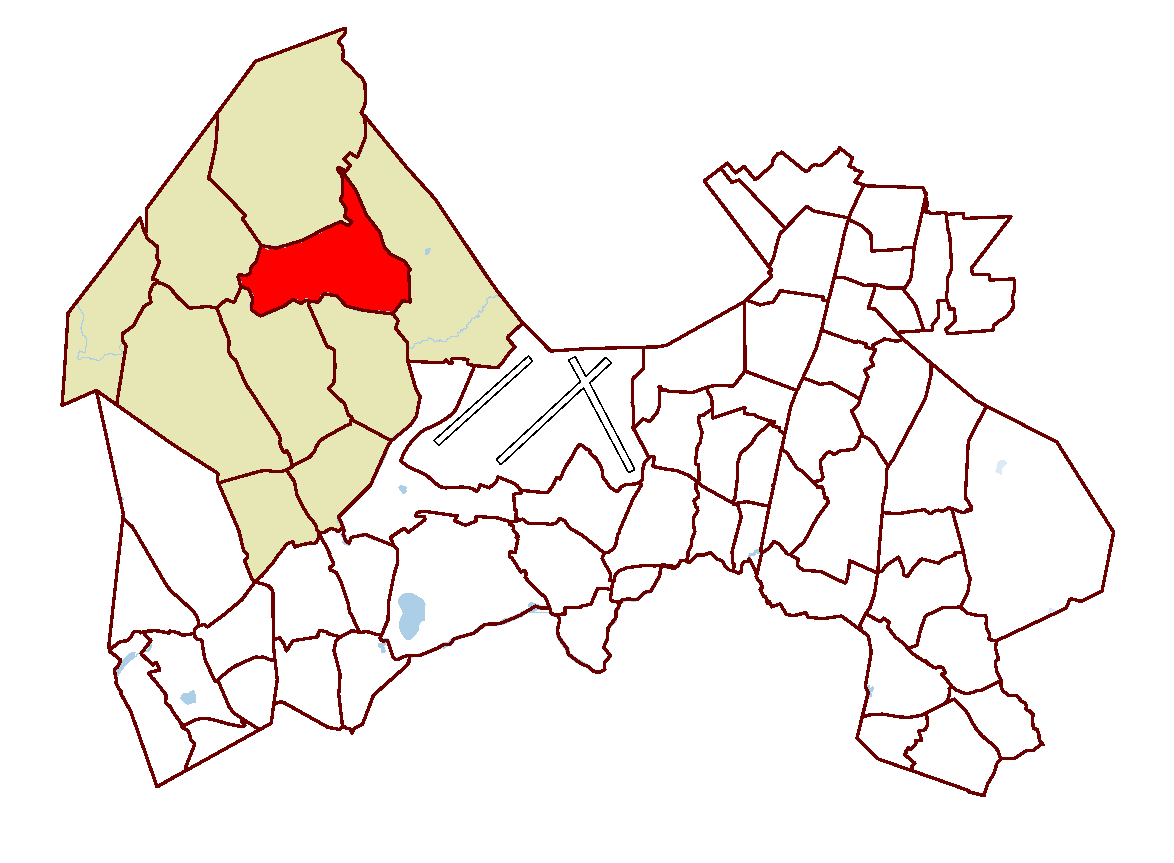 District of Seutula (marked red), within Martinlaakso service area (marked light brown) in Vantaa, Finland